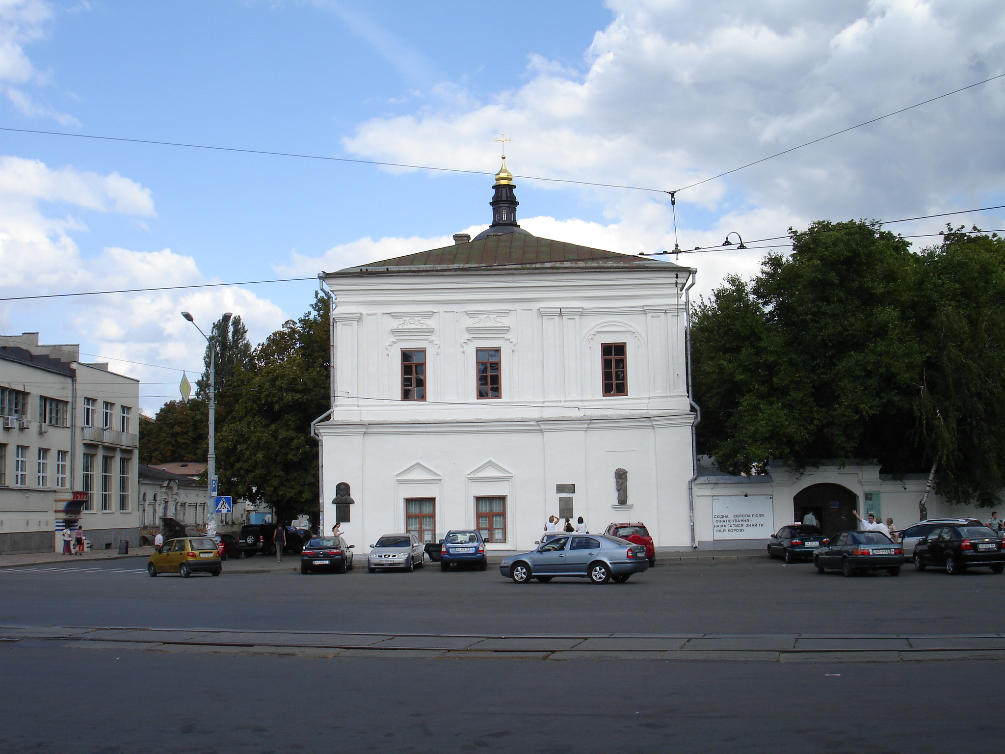 Mazepa building of NaUKMA (contains the NaUKMA research library, congregation hall and the Center for Modern Art)